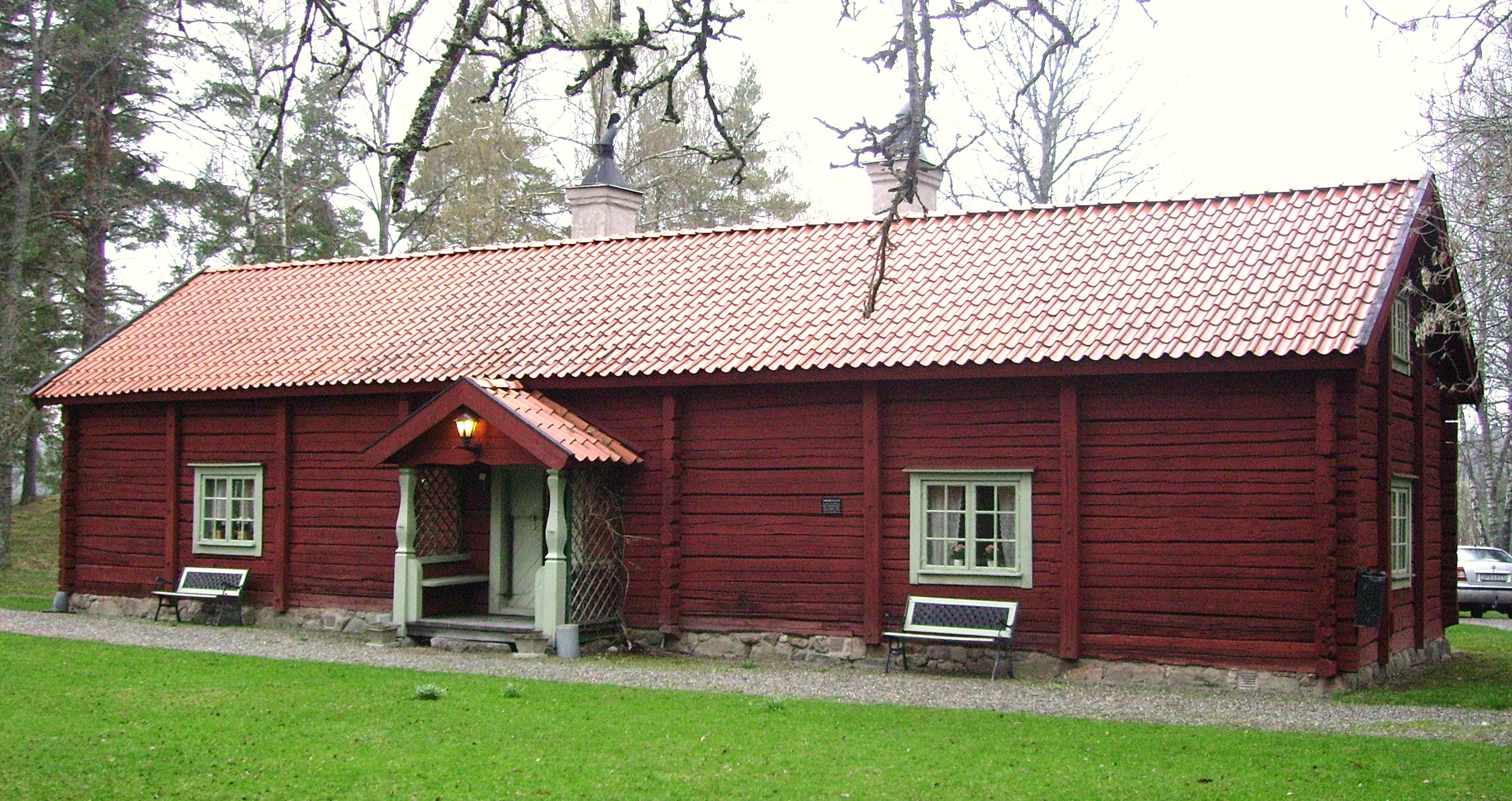 Picture of cabin from 1700s in Trostorp in Södermanland (Trosa)